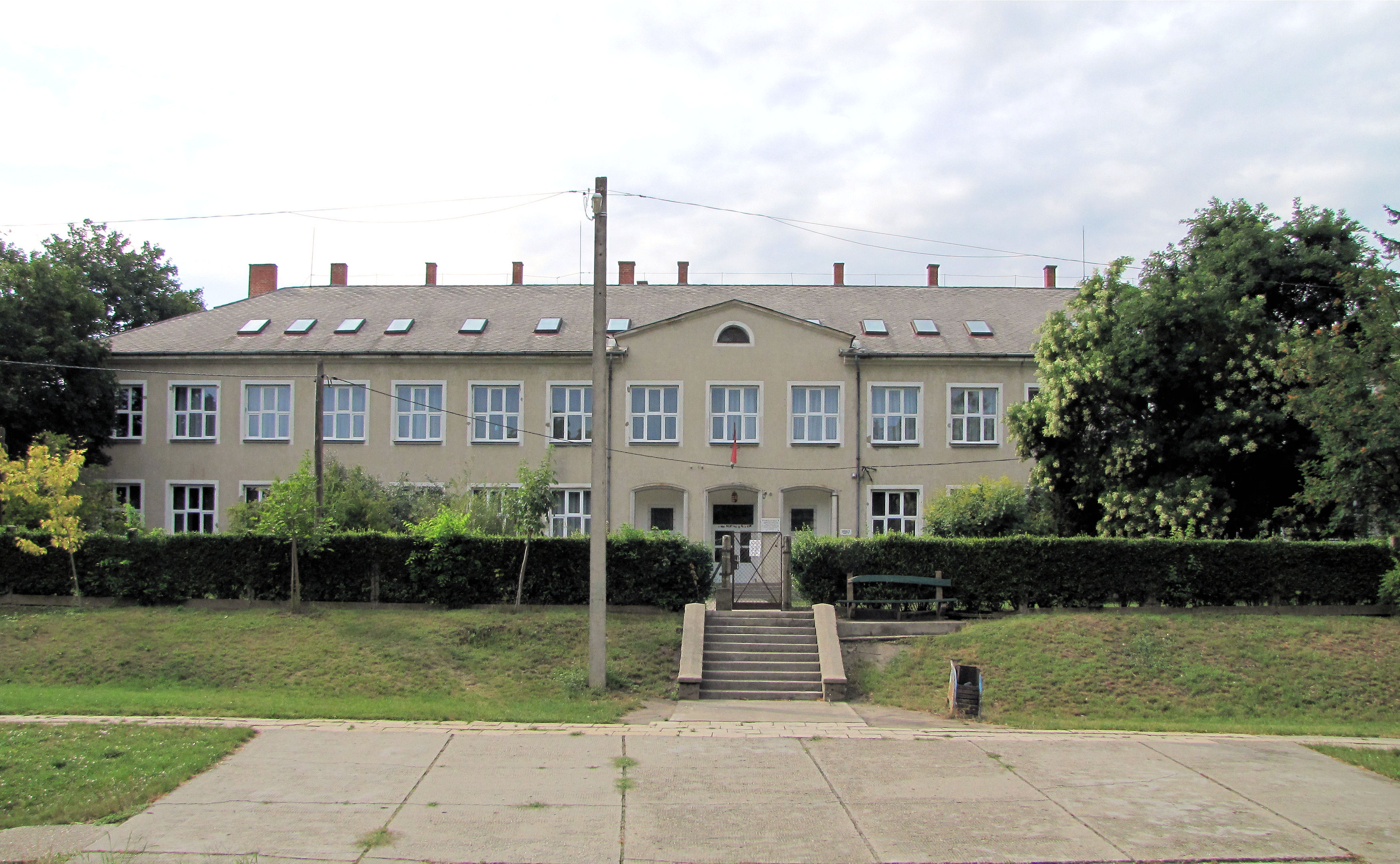 Előszállás, elementary school, built in 1956.